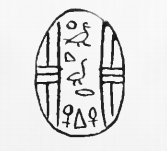 Picture of a scarab of pharaoh Qareh (= Qar). 14th dynasty, Second intermediate period.